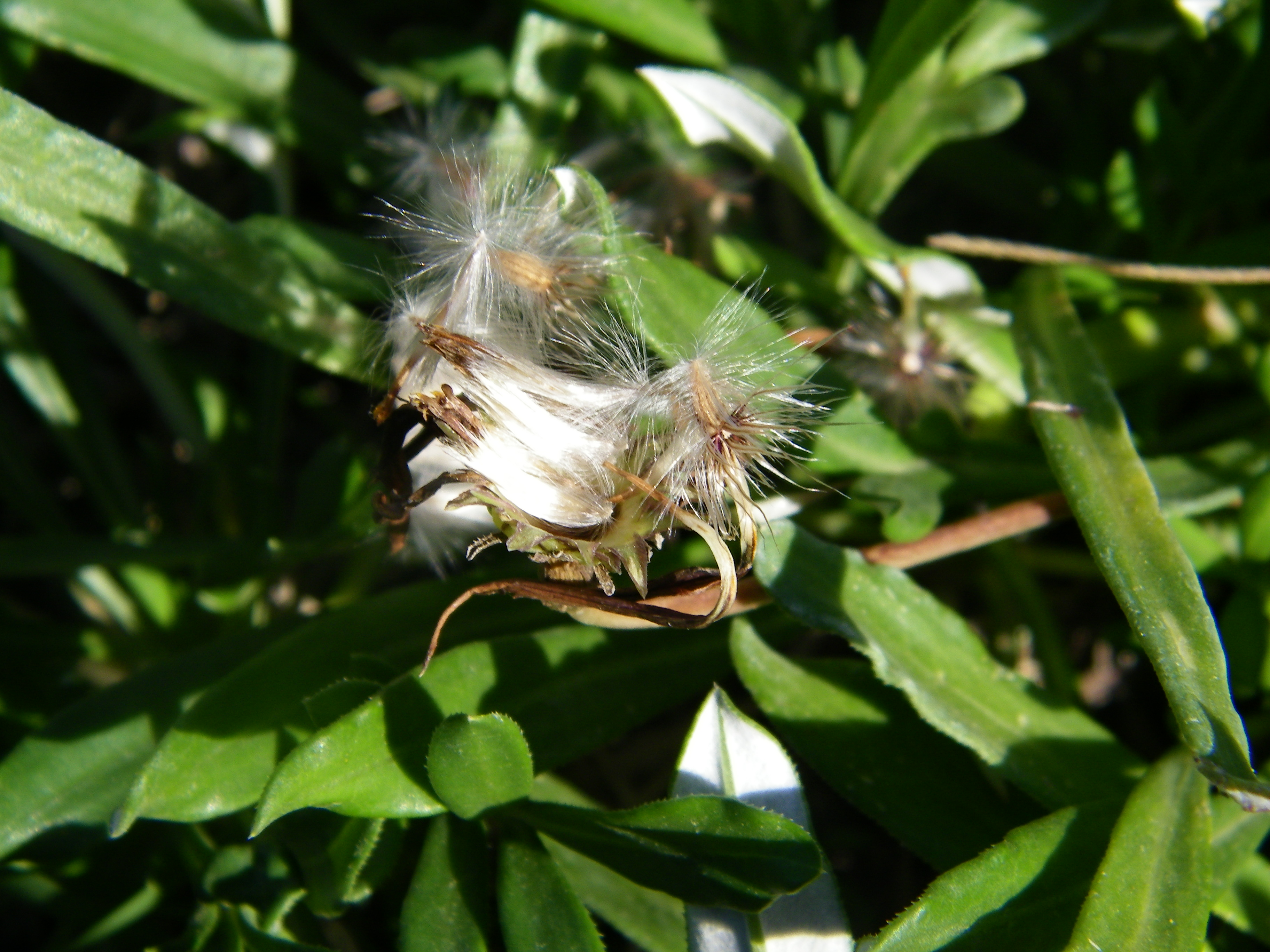 Gazania Seeds.